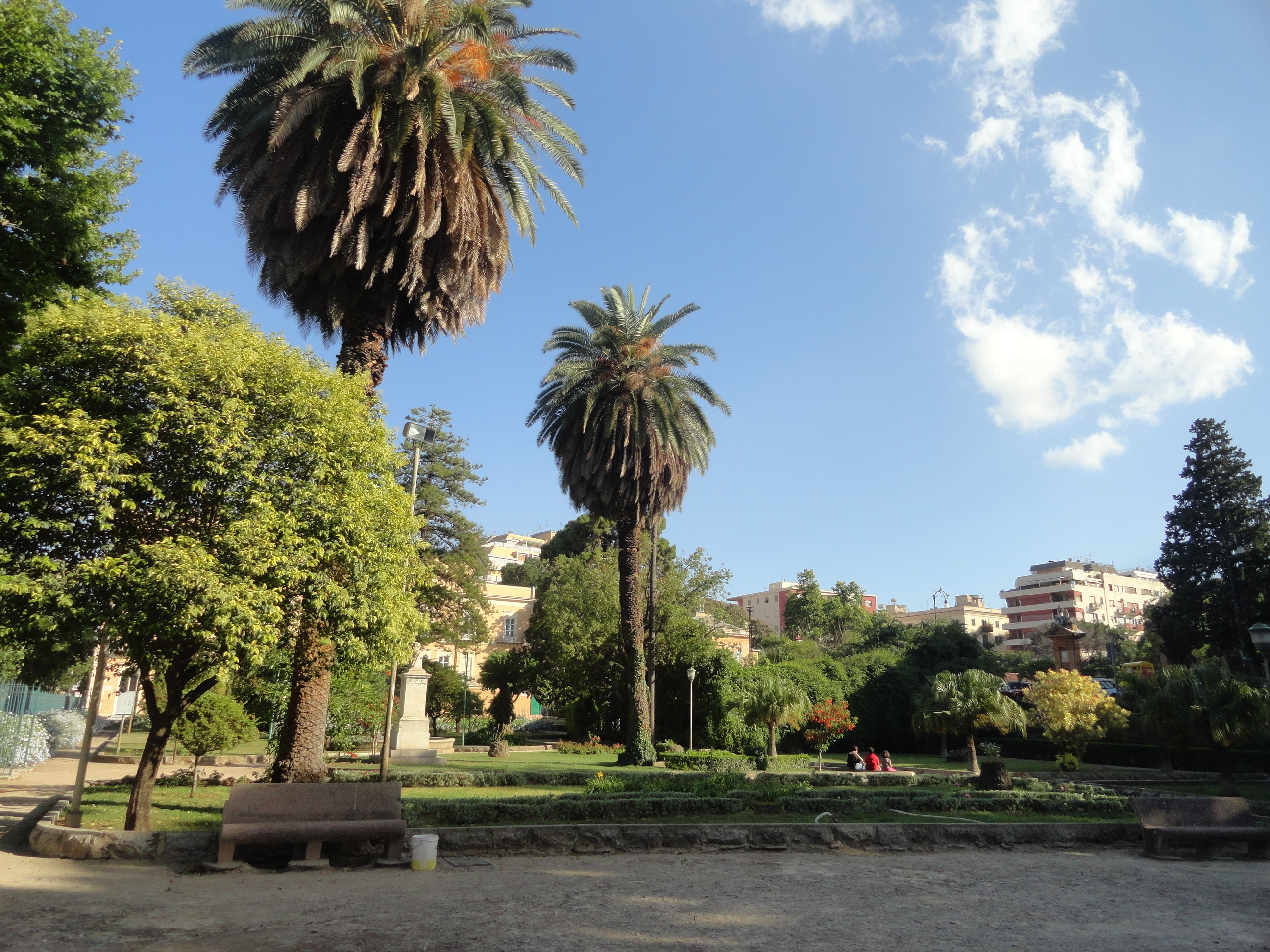 A view from historical "Villa Garibaldi", now intitled to Giovanni Falcone and Francesca Morvillo, in Palermo, Sicily, Italy. On the opposite side is the English garden or Giardino Inglese. By the founder of